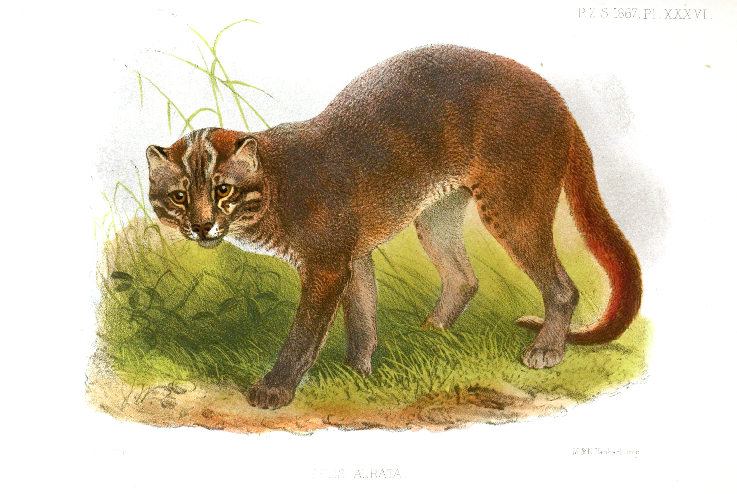 Asiatic golden cat (Pardofelis temmincki), misidentified in the original plate as an African golden cat ("Felis aurata")